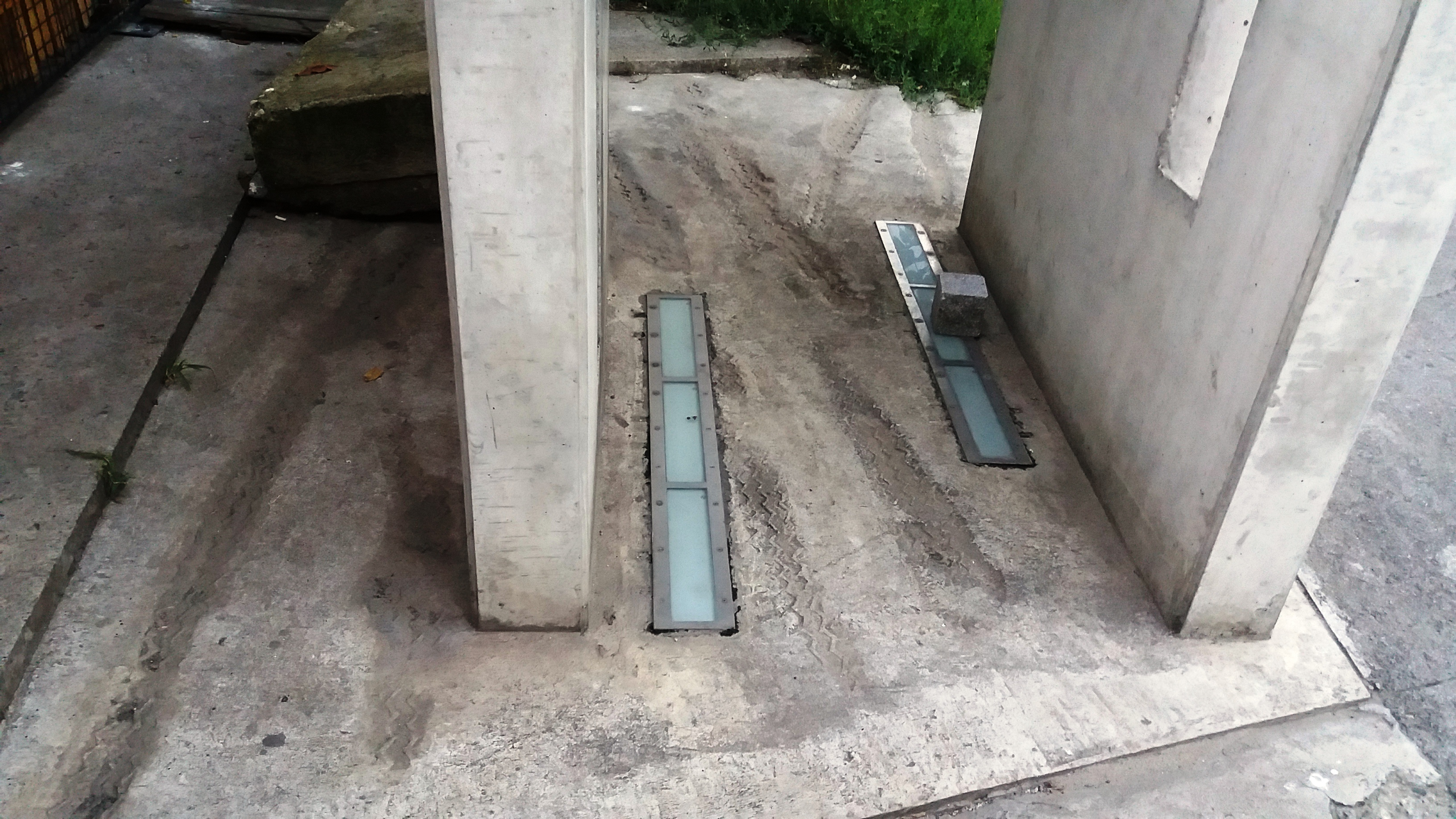 Monument to the Jews killed in the Dušegupka truck, from March to May 1942, prints of original truck tires